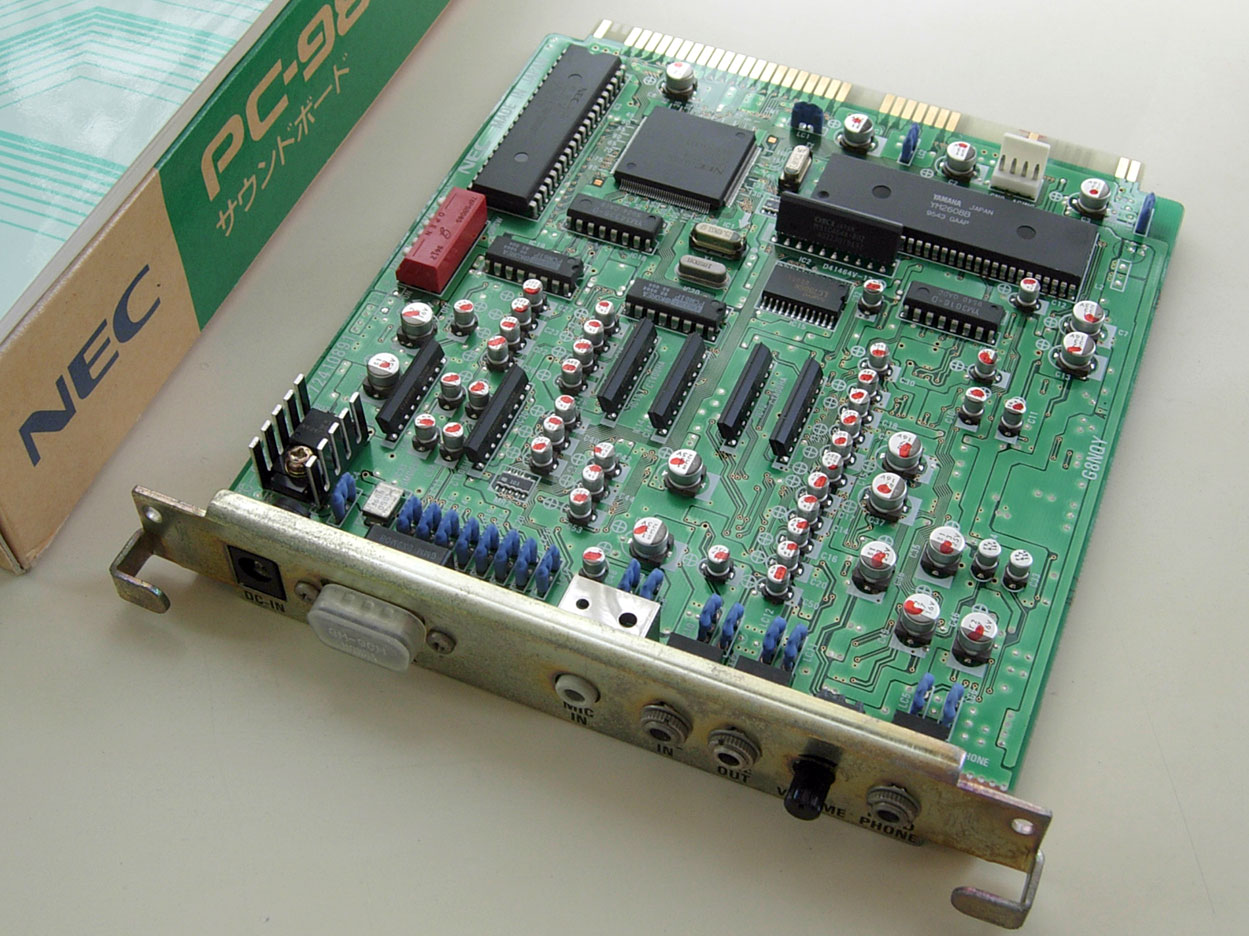 NEC PC-9801-86 Sound Board for NEC PC-9801/9821.